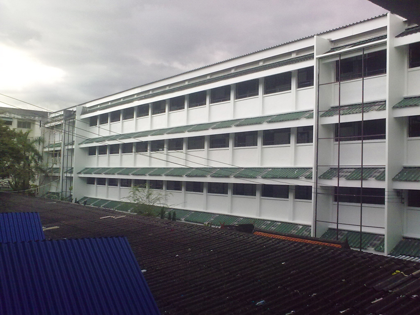 Building 3 'Budsakorn' View from Toproof